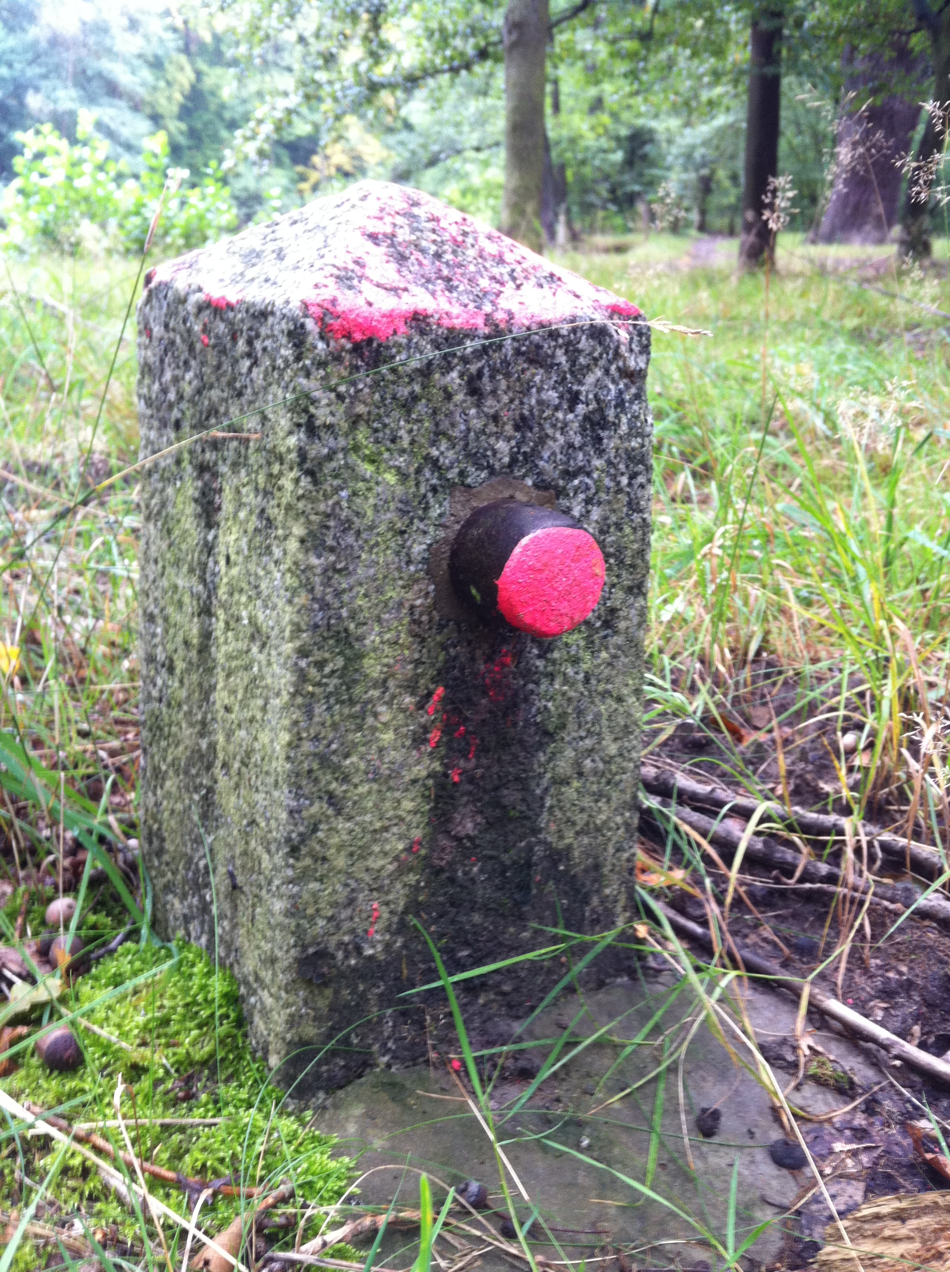 levelling benchmark in Berlin-Spandau, Germany